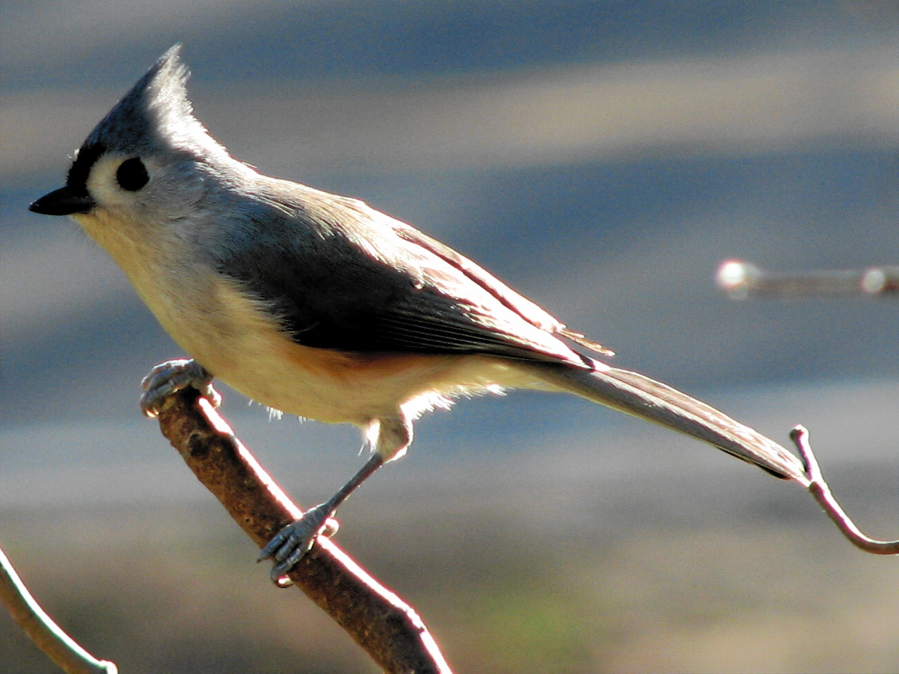 A male tufted titmouse, Baeolophus bicolor, perching on a tree branch, alert and waiting for a spot at a bird feeder, near Columbus, Ohio, USA.